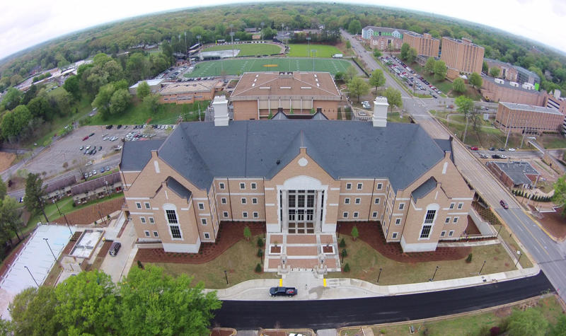 The UNA Science and Engineering Technology Building was completed in 2015. The five-story, 160,000-square-foot facility was designed by Lambert Ezell Durham Architects and constructed by BL Harbert, The state-of-the-art building houses engineering technology, biology, chemistry, industrial hygiene, physics and earth science It also includes conference areas, faculty offices, research facilities, specialized classrooms, a dining area, computer laboratories, super laboratories and lecture halls. The UNA Science and Engineering Technology Building is a FEMA rated storm shelter capable of withstanding an F5 tornado.